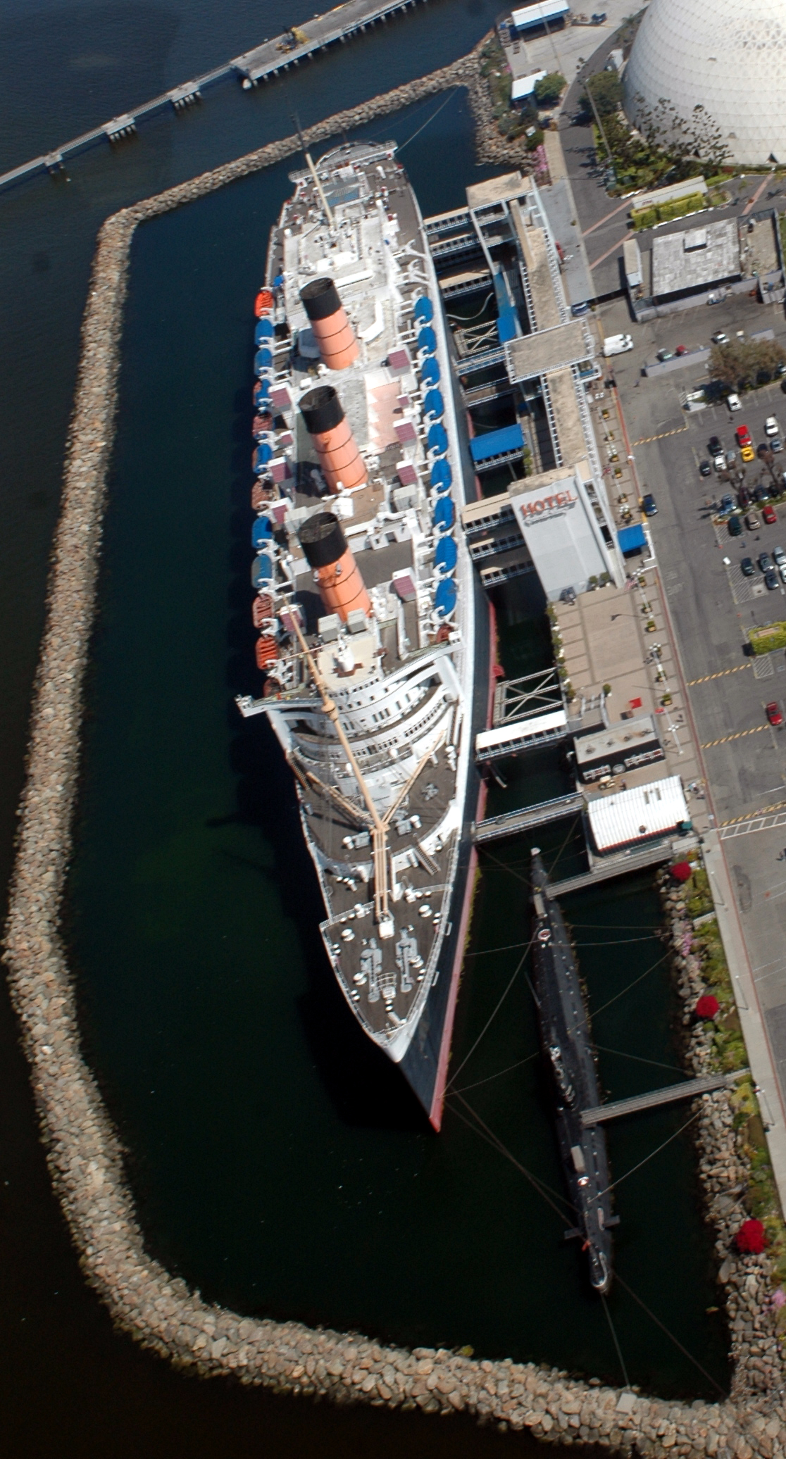 HMS Queen Mary aerial photo_D_Ramey_Logan, guest pilot on this run: Jason Conner